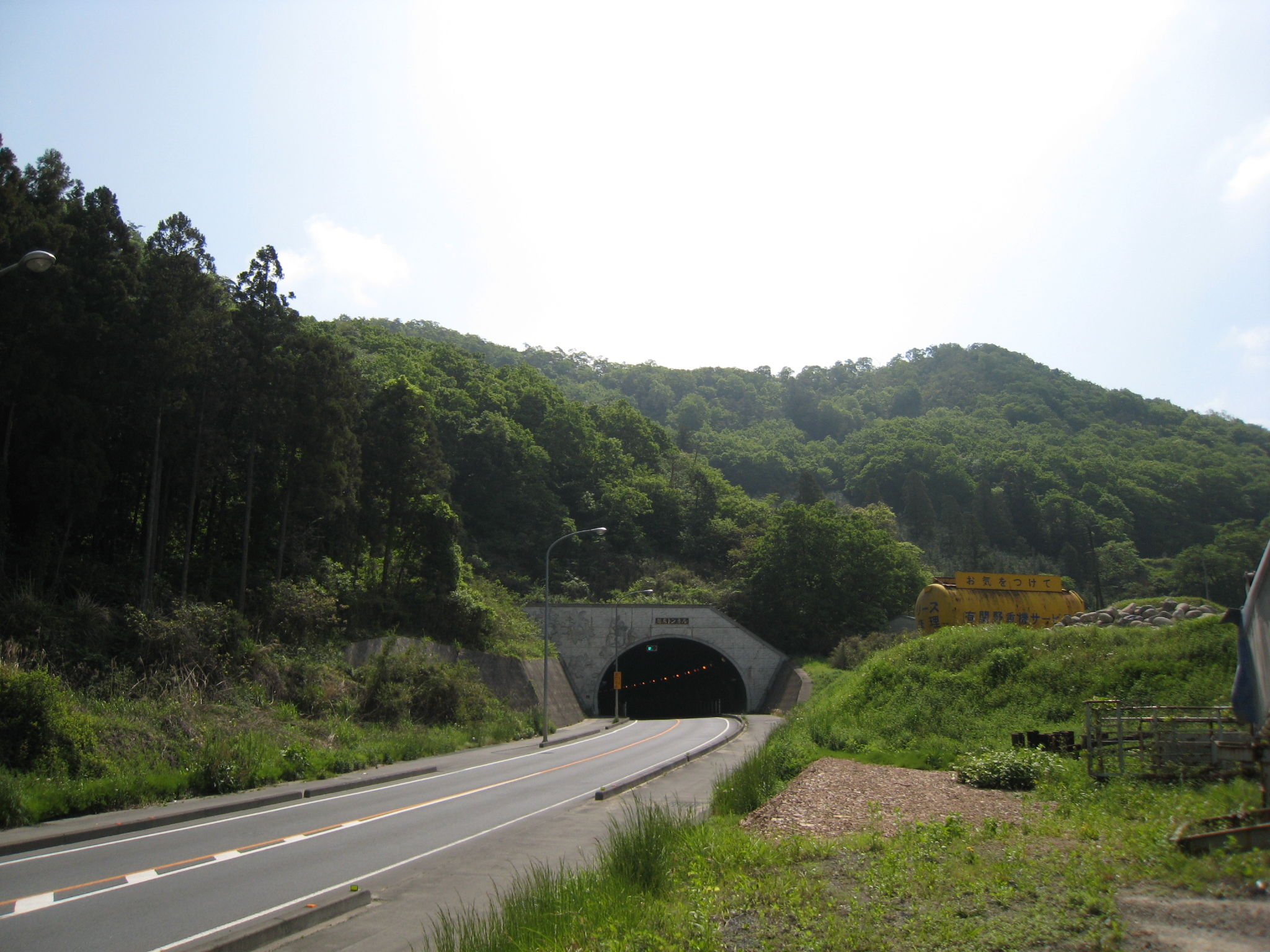 Koshidoko Pass on Route 293 in Ashikaga, Tochigi Prefecture,Japan ,which is between Ashikaga and Sano